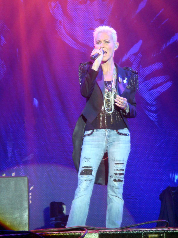 Swedish singer Marie Fredriksson live at Roxette concert in Halmstad, 14 August 2010